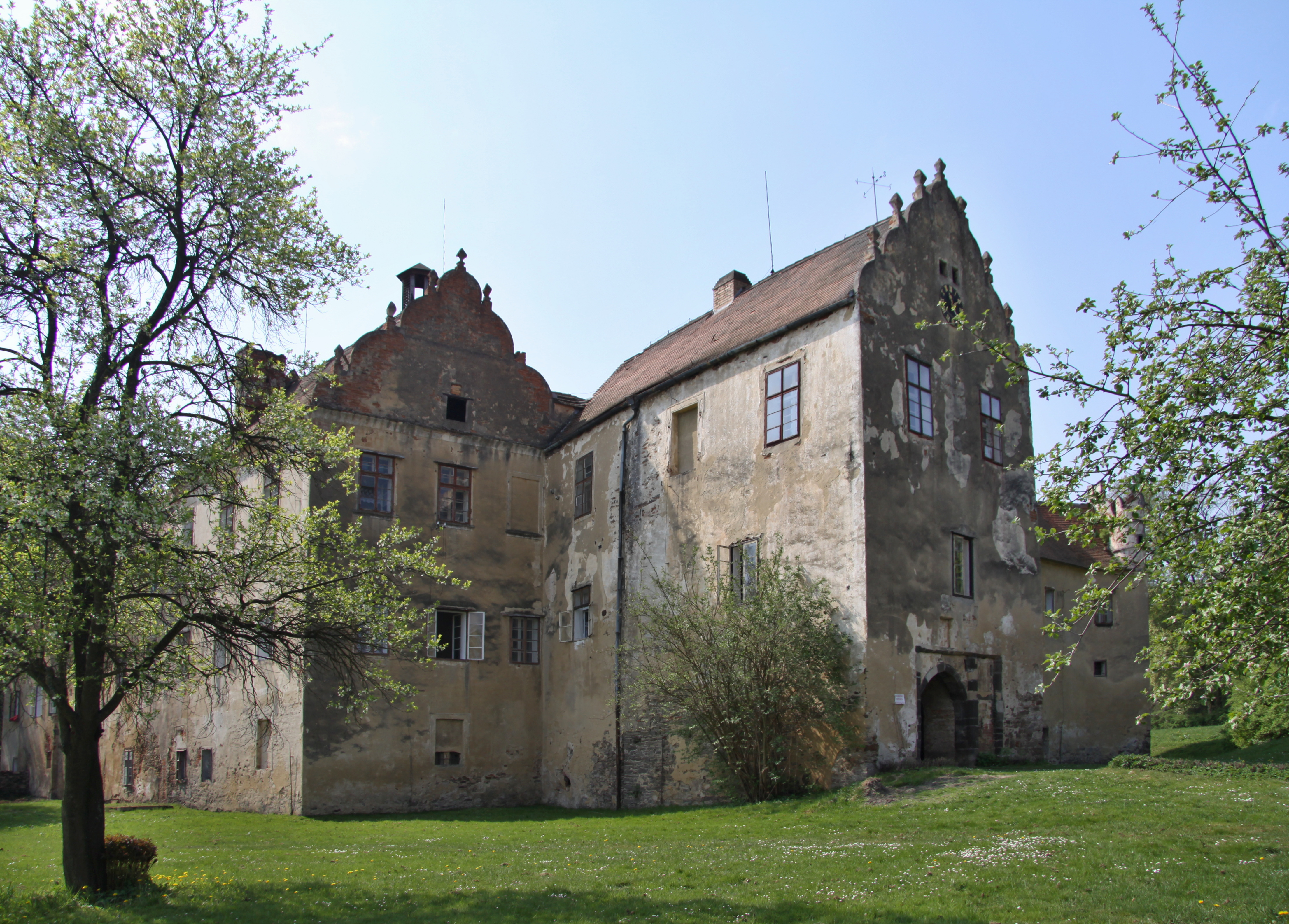 Castle Libějovice in Libějovice village, Strakonice District, Czech Republic